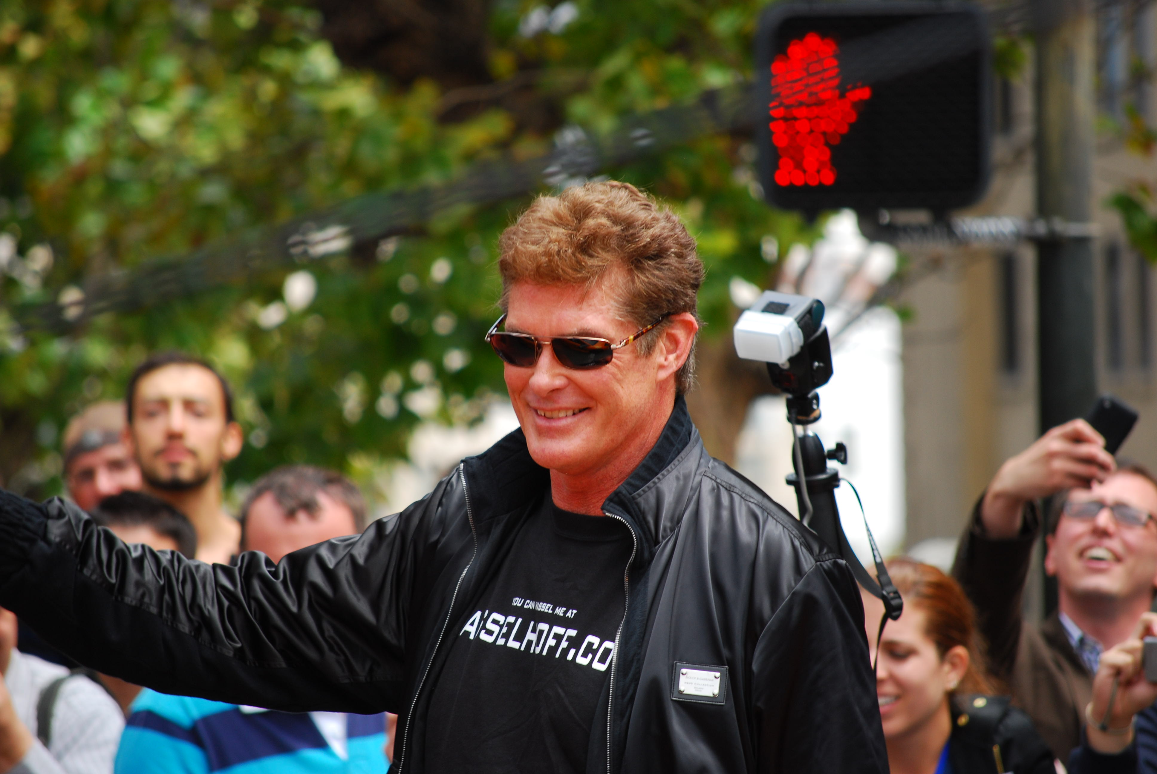 Hasselhoff at the Gumball rally